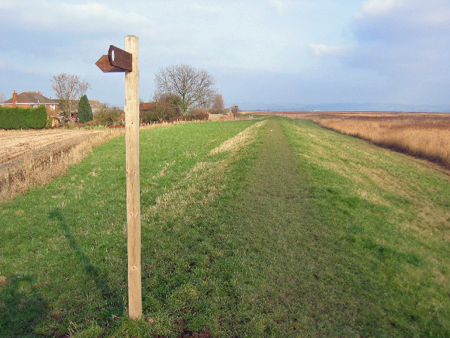 Faxfleet, East Riding of Yorkshire, England.Looking NE along the bank of the River Humber in the direction of Whitton Sands.